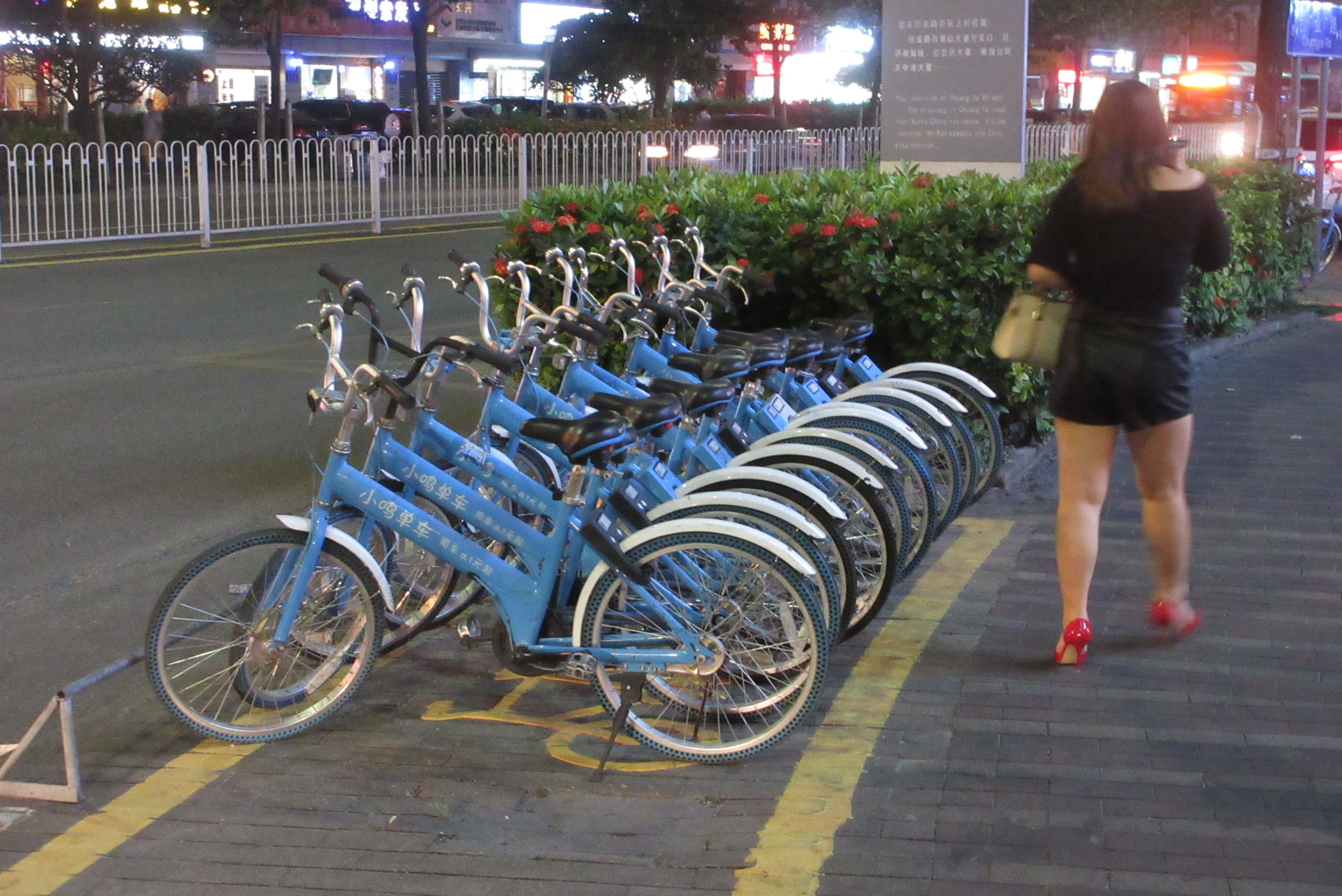 SZ 深圳 Shenzhen 南山 Nanshan night 南山大道 Nanshan Blvd in October 2017